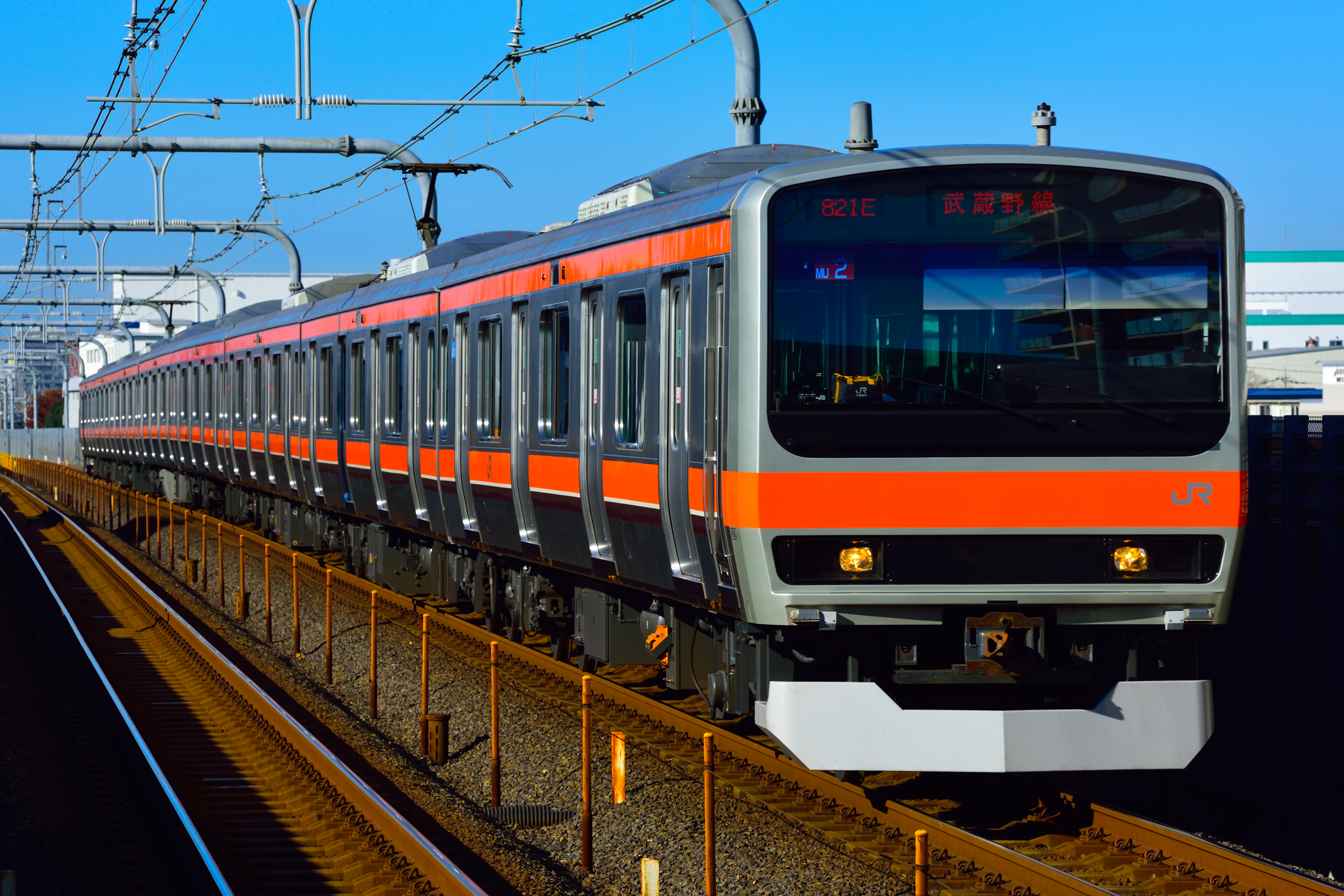 JR East E231-0 series eight car set MU2 approaching Koshigaya-Laketown Station on the Musashino Line in Saitama Prefecture, Japan